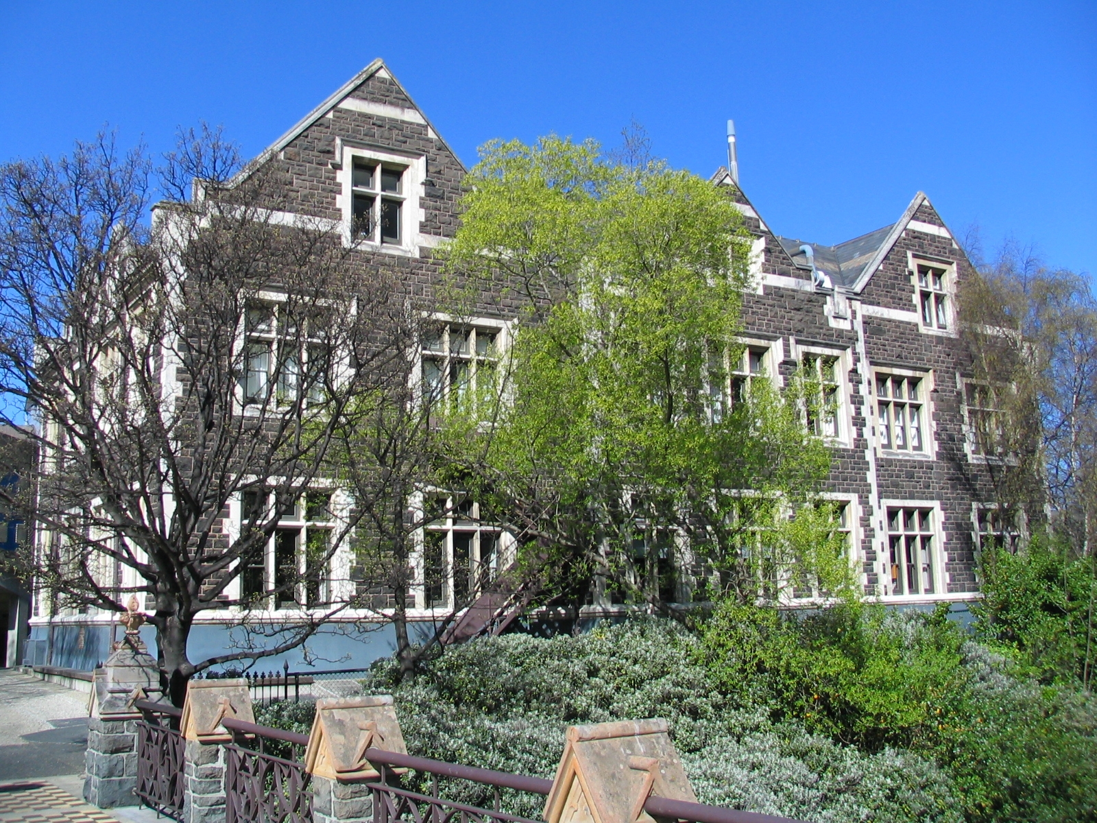 University of Otago Home Science Block, Dunedin, New Zealand, from the west bank of the Leith